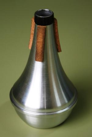 Sourdine of trumpet.